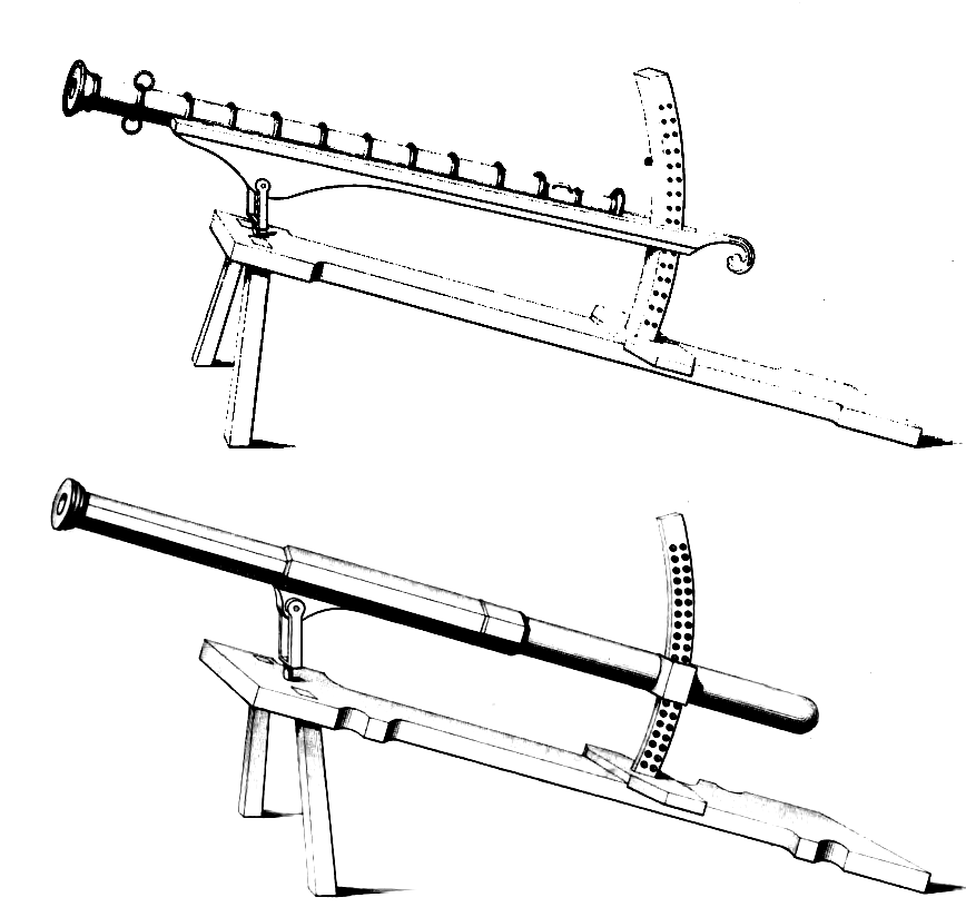 Two coulevrines (15 th c.) on mounts, one forged-iron, another cast bronze, taken from untitled 15th c. manuscript and reprinted in 'Études sur le passé et l'avenir de l'artillerie', T. 3, P.172, fig.2,3.